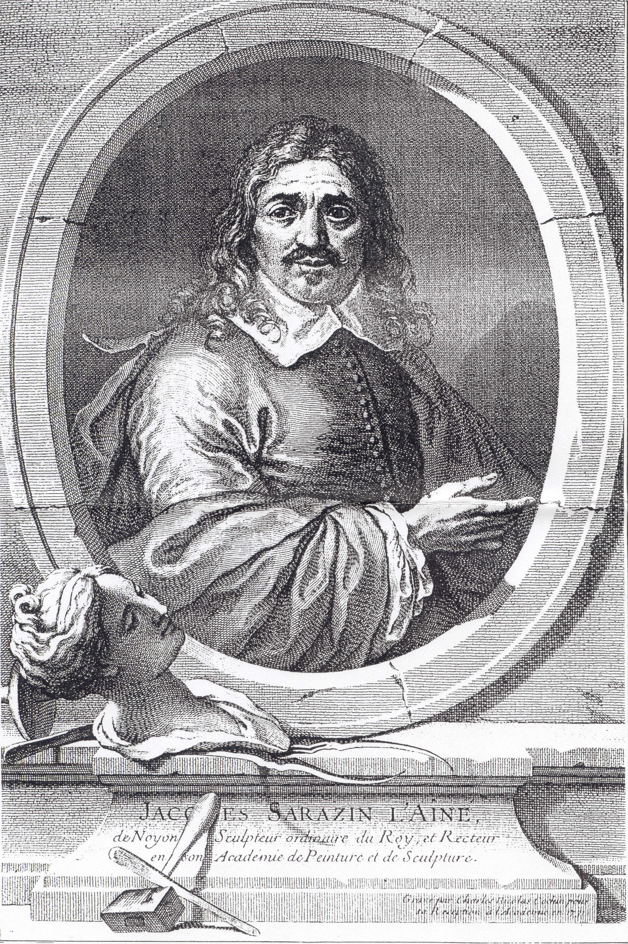 Etched portrait of artist Jacques Sarazin.